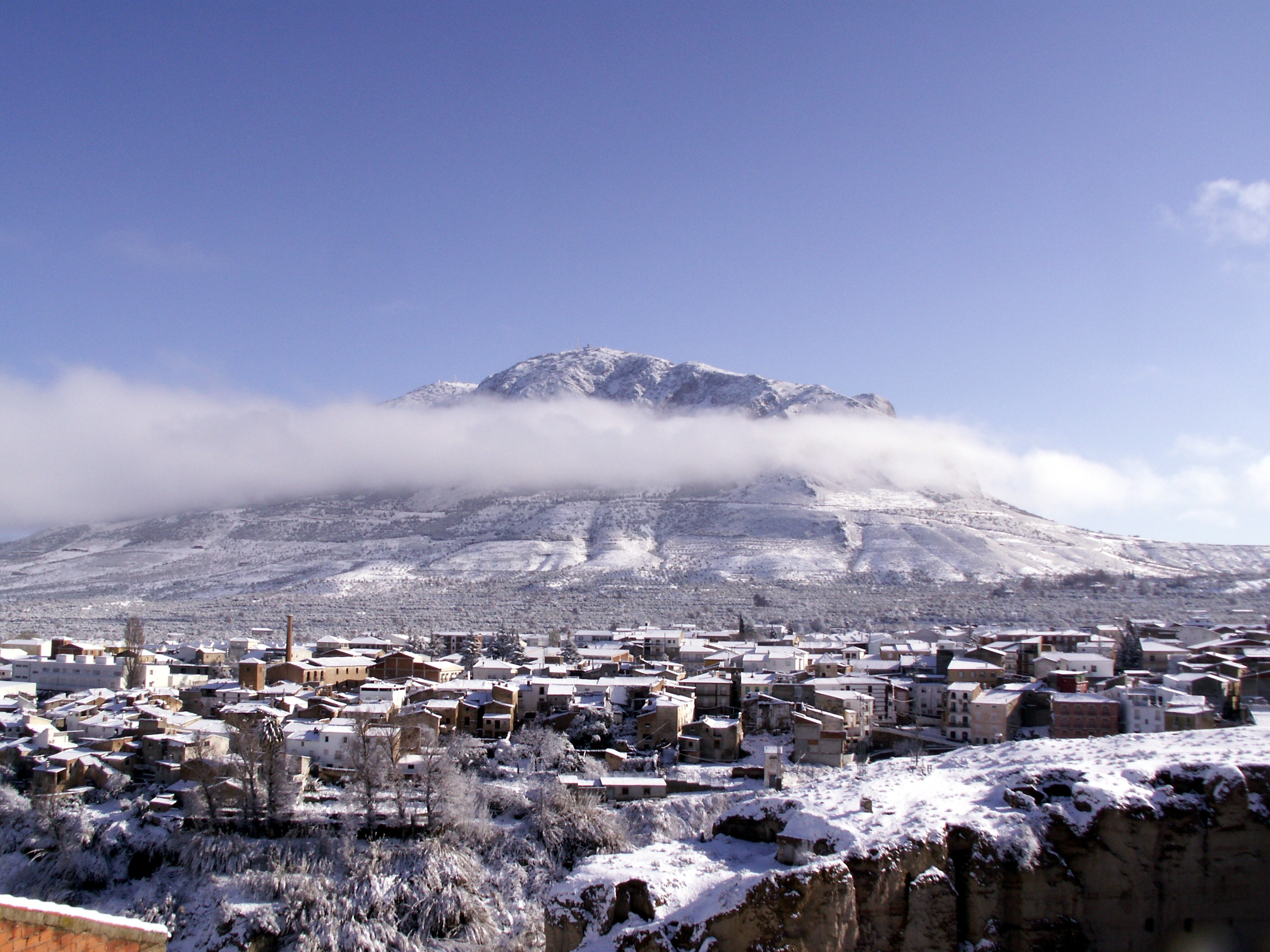 Jabalcón in Zújar, Spain